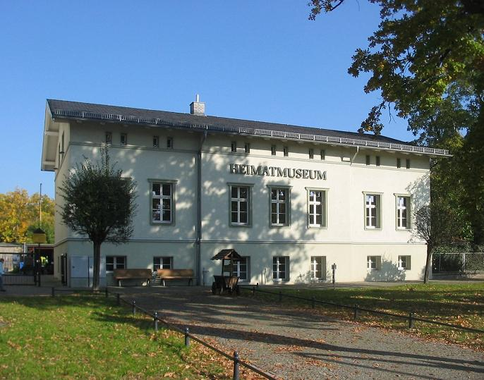 Museum of local history in the town Königs Wusterhausen in the district Dahme-Spreewald, state Brandenburg, Germany.